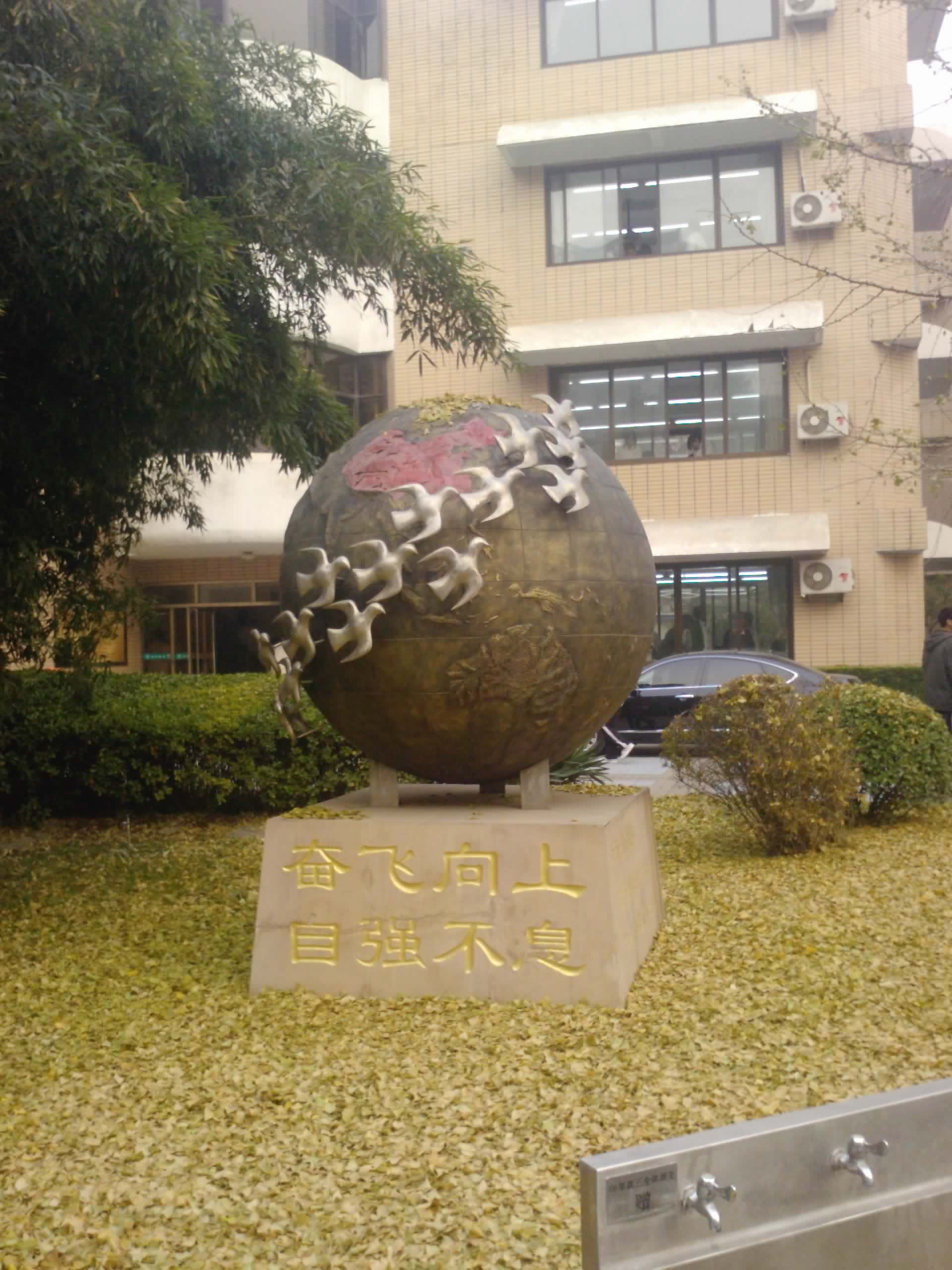 Chenjinglun